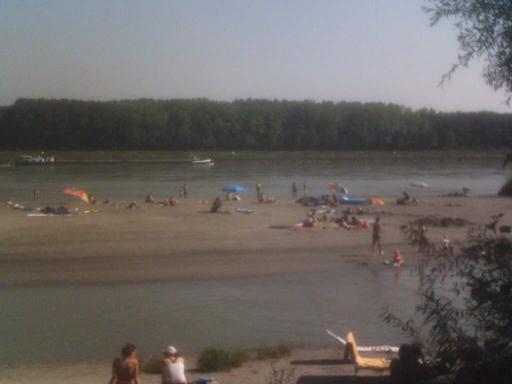 Picture taken by myself. It shows an island caused by the big 2002-flooding of the Danube. In summer the island is used as beach.